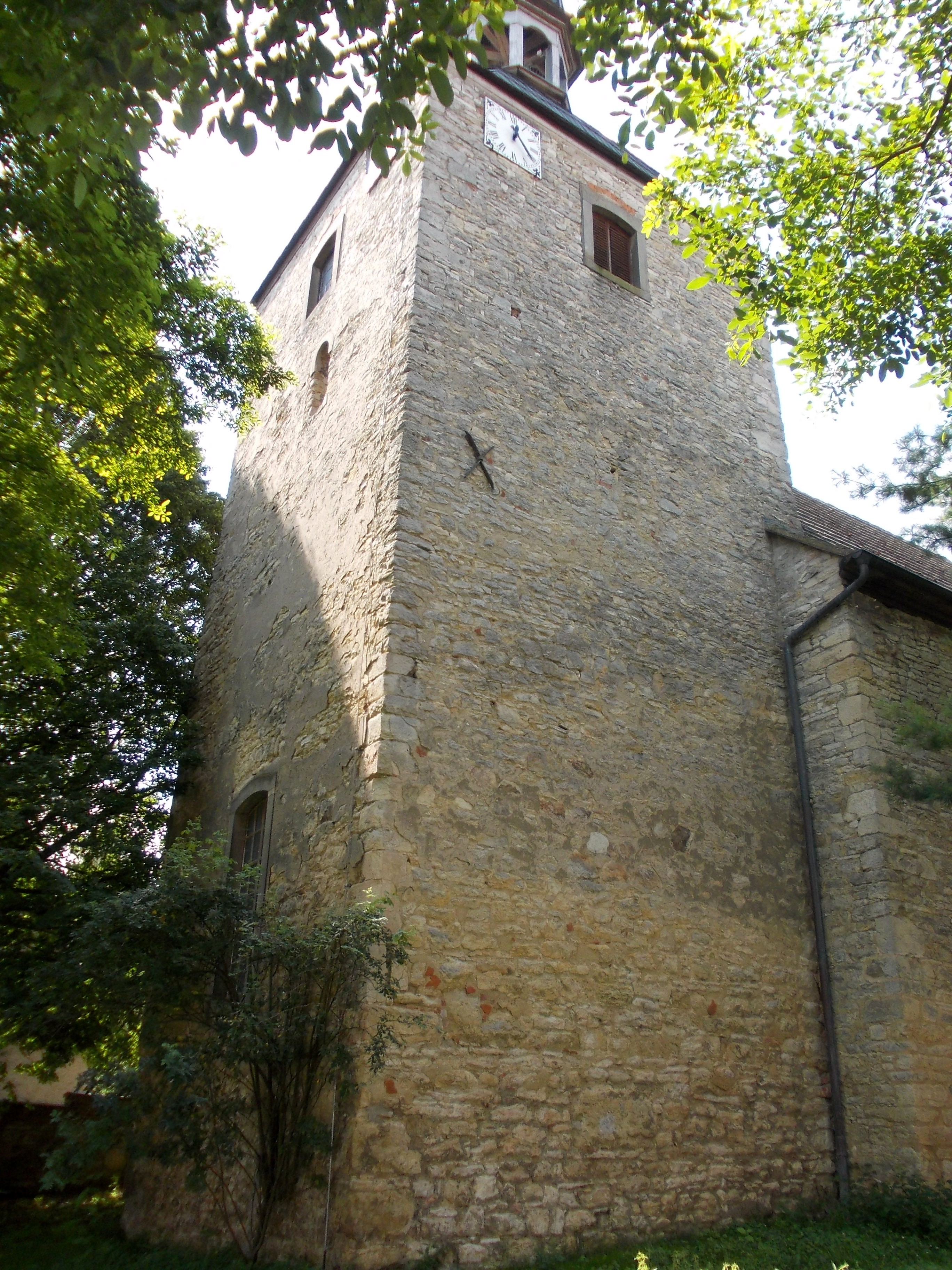 Benndorf church (Lanitz-Hassel-Tal, district: Burgenlandkreis, Saxony-Anhalt)